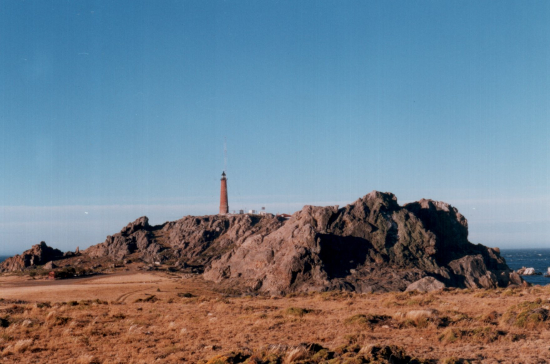 View of Cabo Blanco (Santa Cruz, Argentina) from the south looking north. Picture taken in January 2000